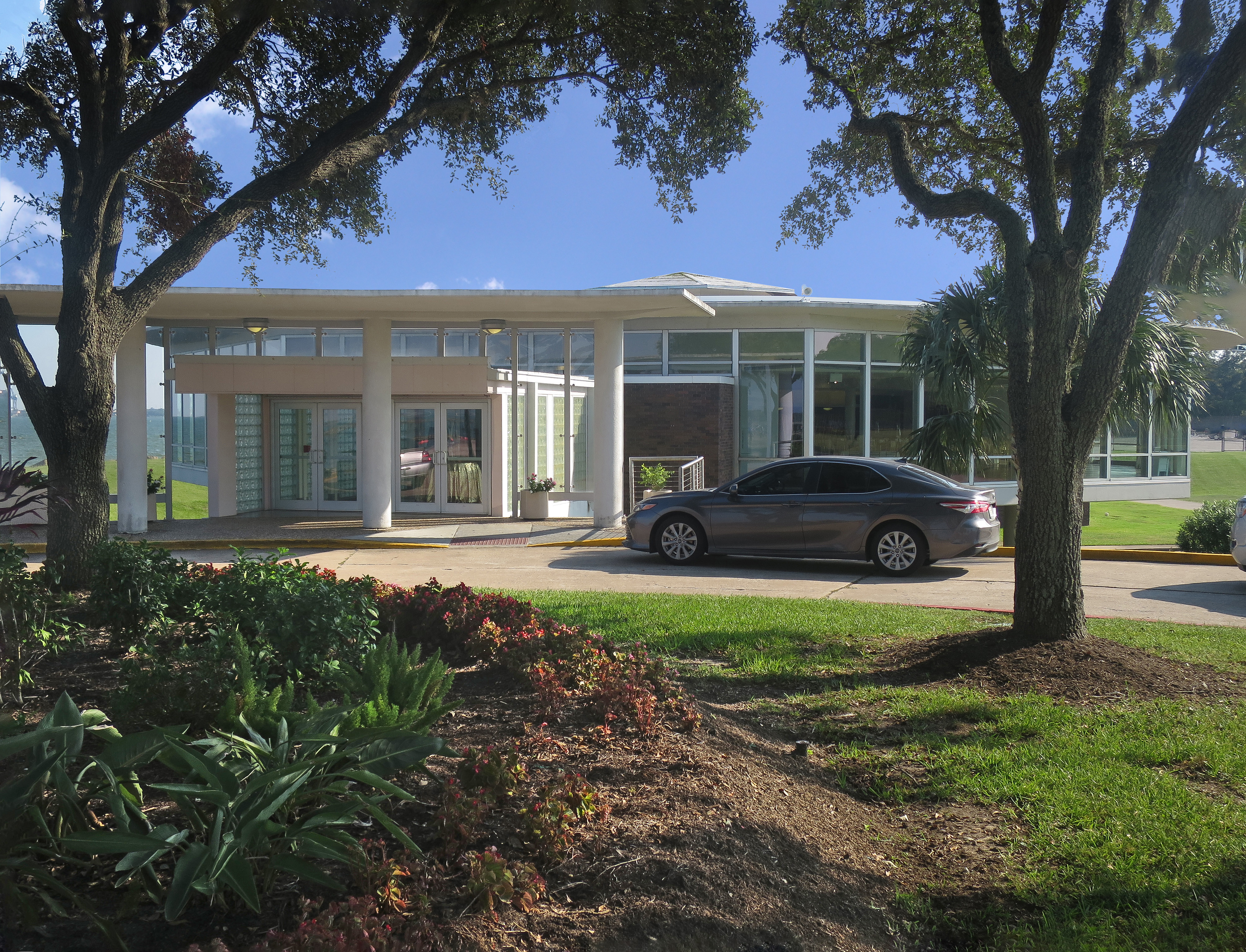 The town of La Porte, developed in 1892, originally reserved a portion of the bayfront for a recreational park, known as Sylvan Grove. Following the panic of 1893, much of the bayfront was sold except for 22 acres that were retained as Sylvan Beach Park that became, in 1896, a privately operated amusement park and campground. A 1930s pavilion, one of the largest dance halls in the south, was destroyed by a tornado spawned by the 1943 hurricane. The park's pavilion was not rebuilt as wartime restrictions curtailed non-defense related construction. In 1954, Harris County Commissioners purchased the Sylvan Beach Park and commissioned the Houston architectural firm of Greacen & Brogniez to design a modern, hurricane-resistant dance pavilion. Opened in may 1956, the Sylvan Beach Pavilion celebrated the park's musical and dance history with its elevated octagonal glass walled ballroom containing a large circular wood dance floor that appears to float above the park. This mid-century modern pavilion is an interpretation of the freestanding, octagonal buildings built by German and Czech immigrants in Texas as dance halls and community gathering places. Significant alterations were made in 1962 and 1980. During its first half century of service, the pavilion attracted local and national talent offering music venues ranging from big band orchestras to country to jazz to blues. The pavilion also touched generations of Harris County residents as the location of significant social events including quinceañeras, proms and weddings. The Sylvan Beach Pavilion remains one of the most prominent mid-twentieth century structures in Harris County.